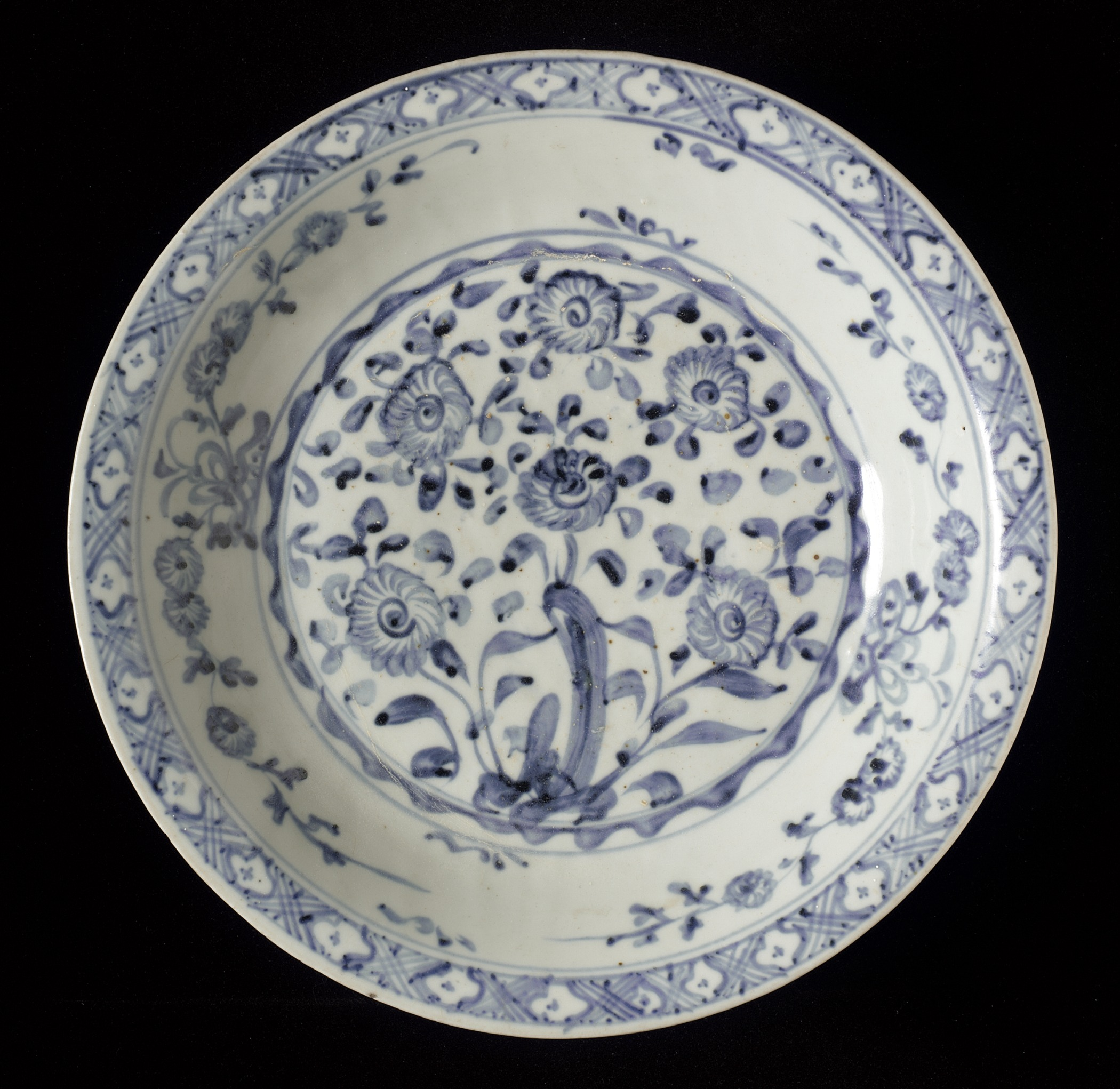 China, Swatow, 16th century Furnishings; Serviceware Stoneware with underglaze blue painted decoration Gift of Ambassador and Mrs. Edward E. Masters (M.84.213.363) South and Southeast Asian Art